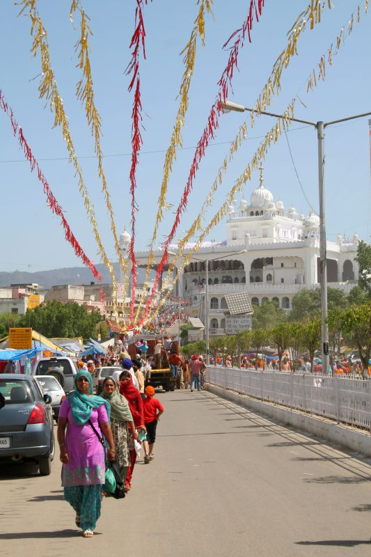 Original description: Streamers lining the road to Takht Sri Keshgarh Sahib on Vaisakhi. The gurdwara was built on the site where the tenth guru, Guru Gobindh Singh, instituted the Khalsa in 1699, and is one of the five takht, or seats of temporal authority, in Sikhism. (The others are: Akal Takht in Amritsar, Takht Sri Patna Sahib in Patna, Takht Sri Damdama Sahib in Bathinda and Takht Sri Hazur Sahib in Nanded.)